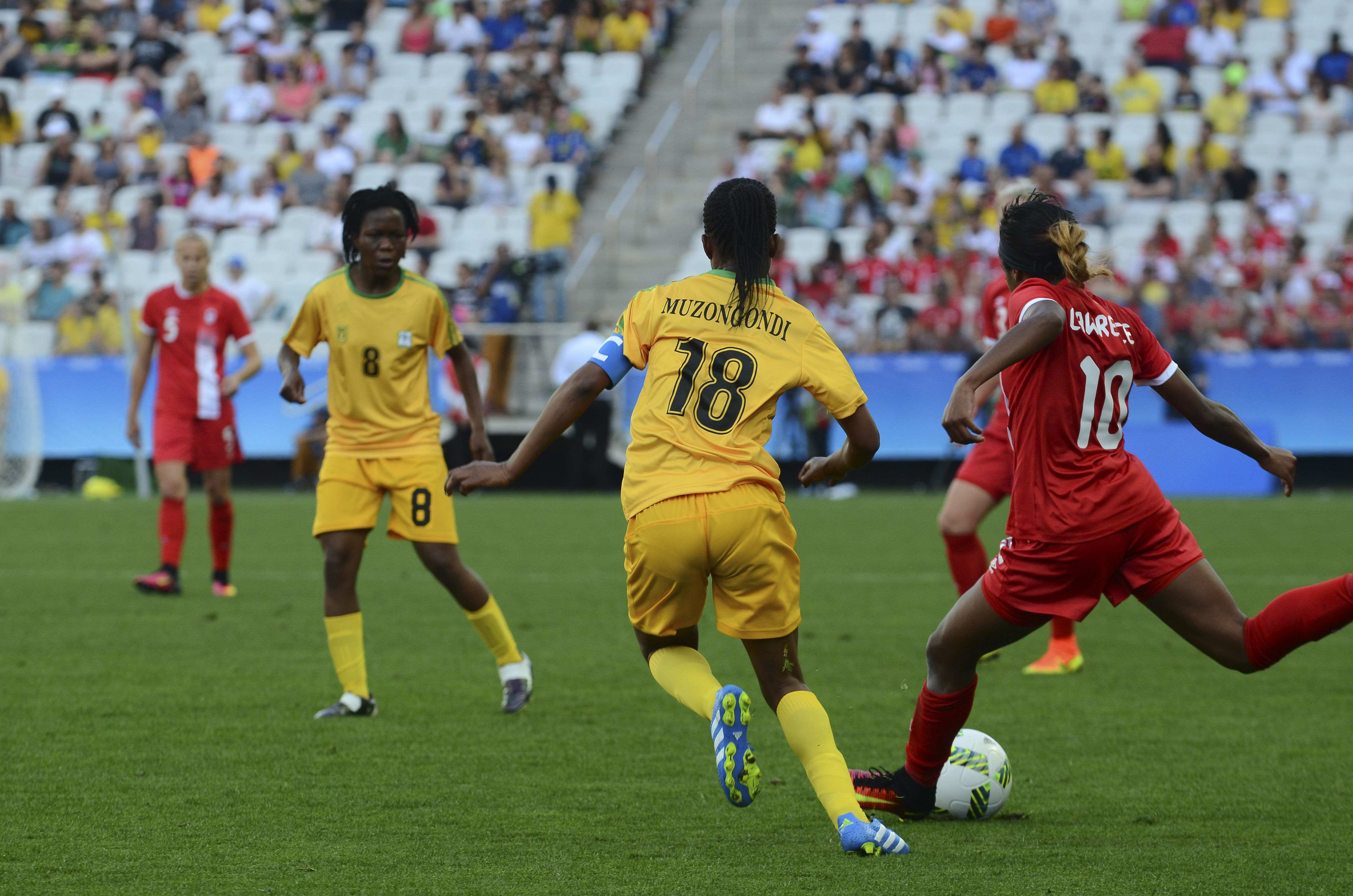 Canada wins Zimbabwe in Rio Olympics